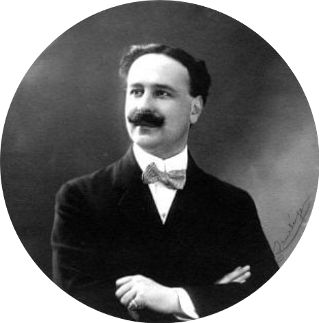 António do Lago Cerqueira (1880–1945), Portuguese landowner and Republican politician